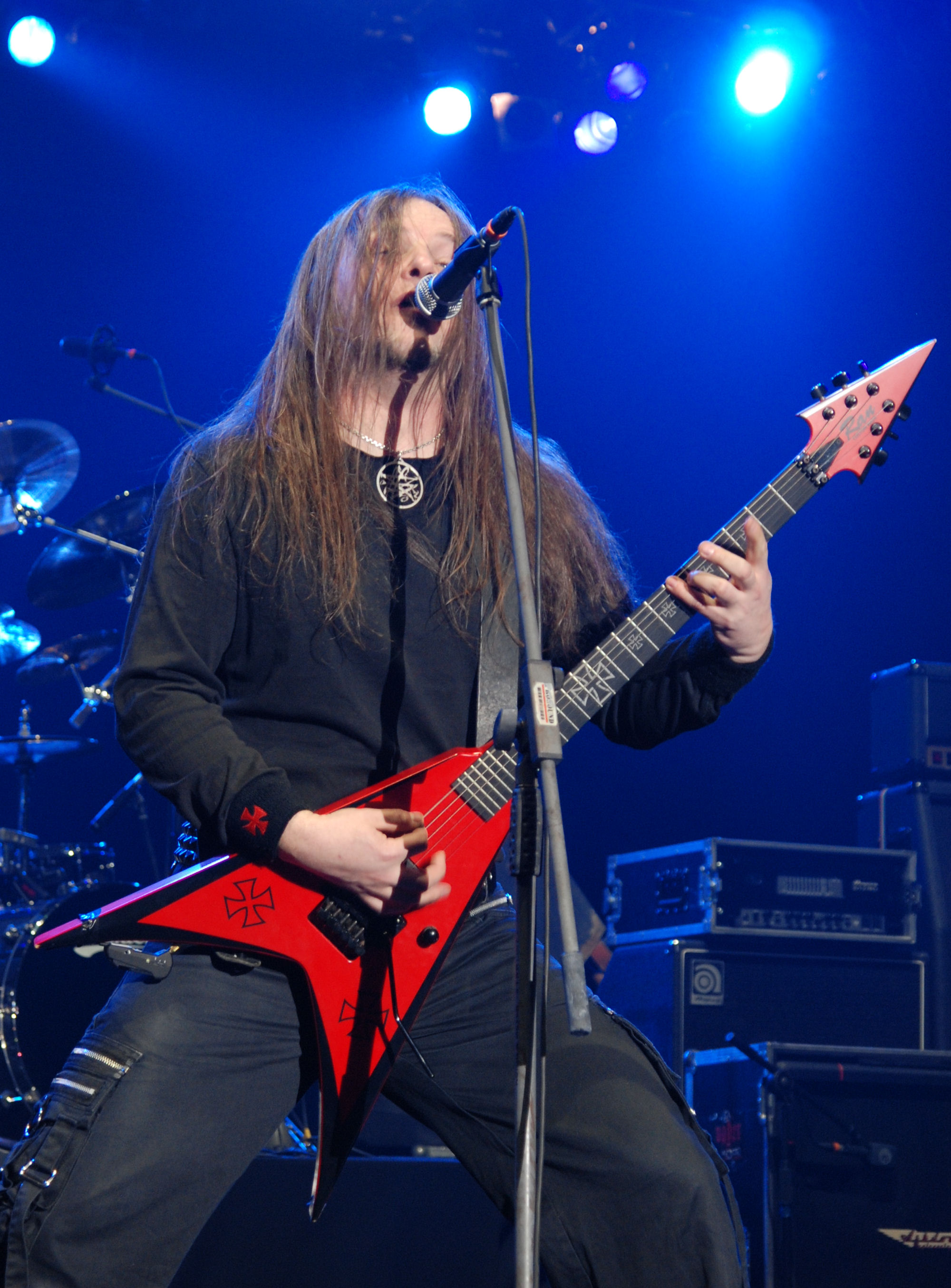 Piotr" Peter" Wiwczarek from Vader during Metalmania 2008 festival